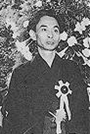 Yasunari Kawabata (1899–1972) at the funeral of his close friend, Fumiko Hayashi.